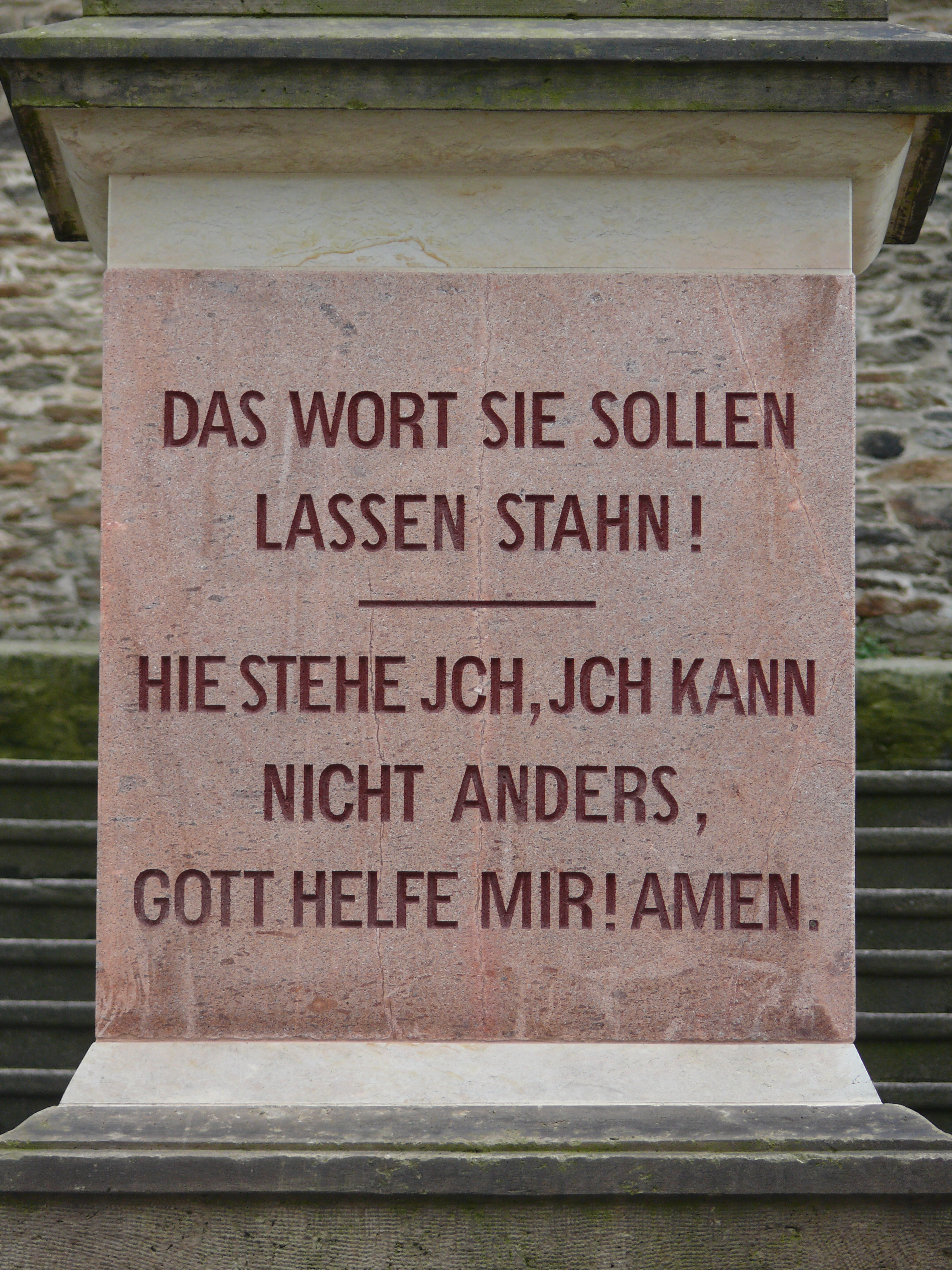 Statue of Martin Luther by Völker after Ernst Rietschel